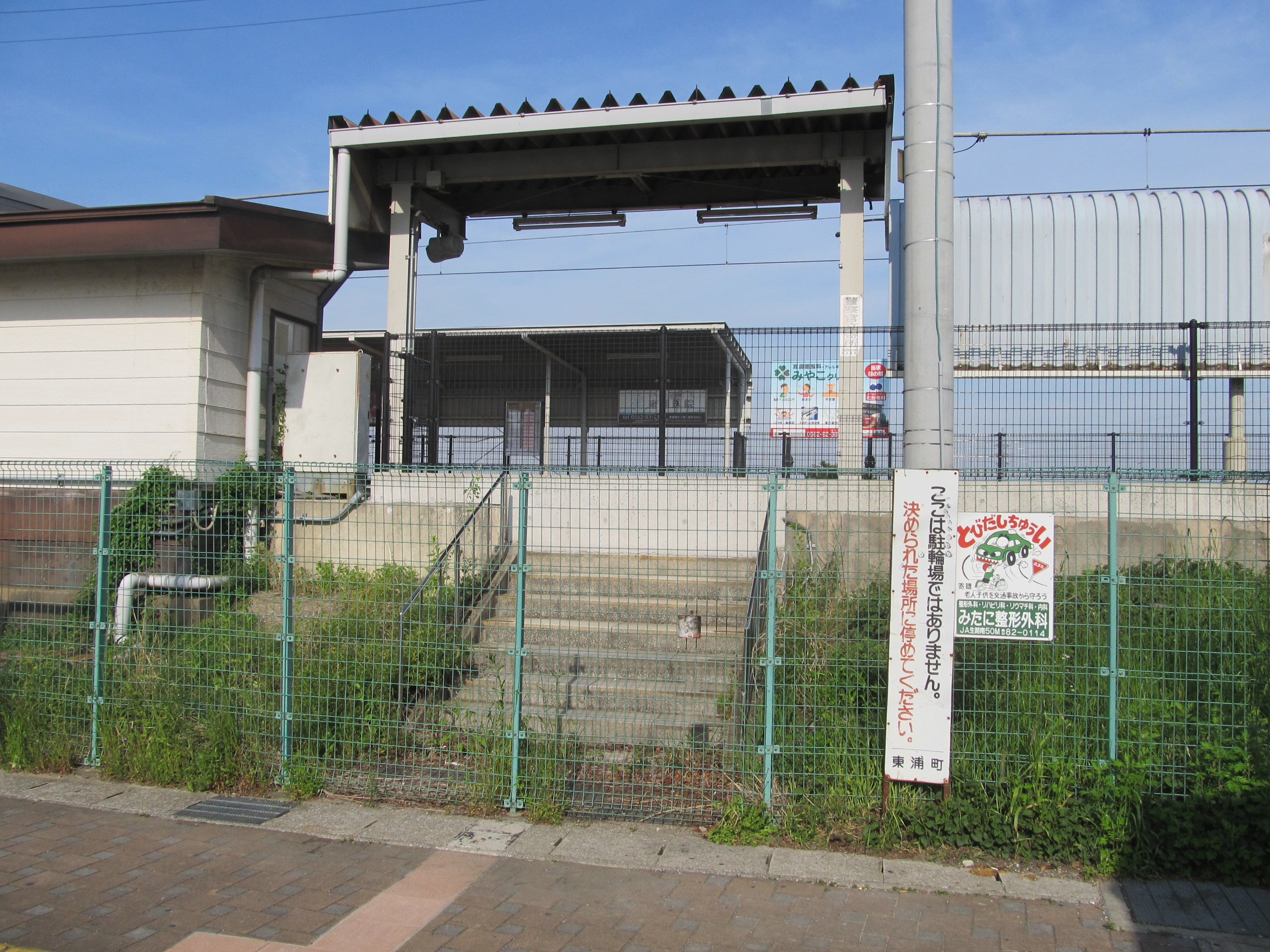 Central Japan Railway Taketoyo Line Ishihama Station Old Gate